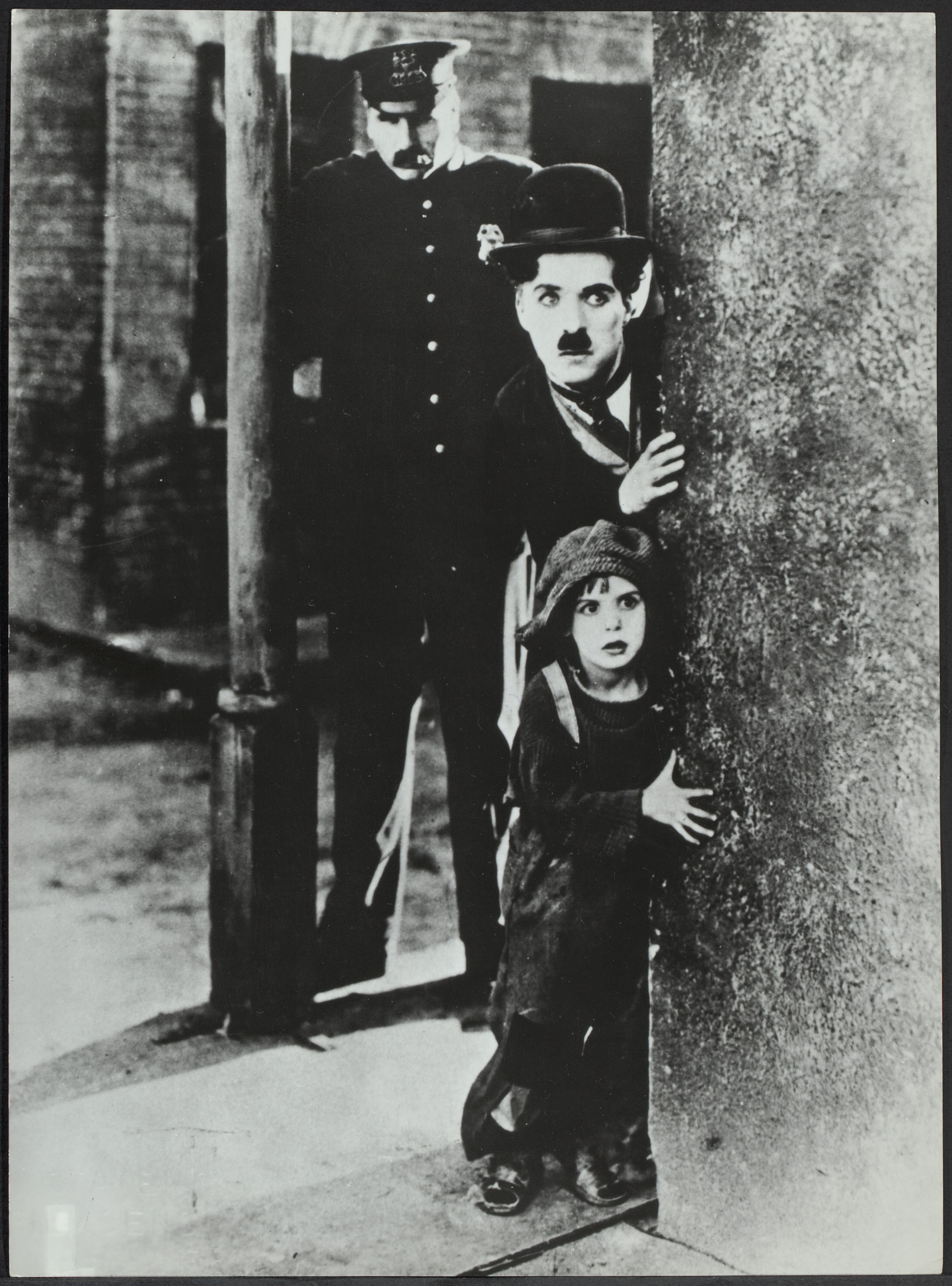 Film still from The Kid (1921) of Charles Chaplin for Charles Chaplin Productions. With Jackie Coogan.